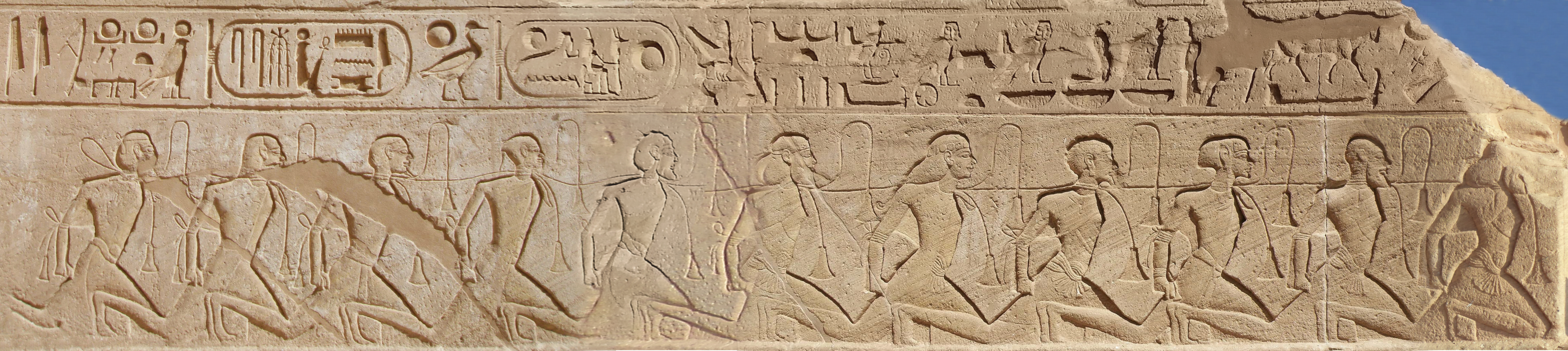 West Asiatic prisoners of Ramses II at Abu Simbel